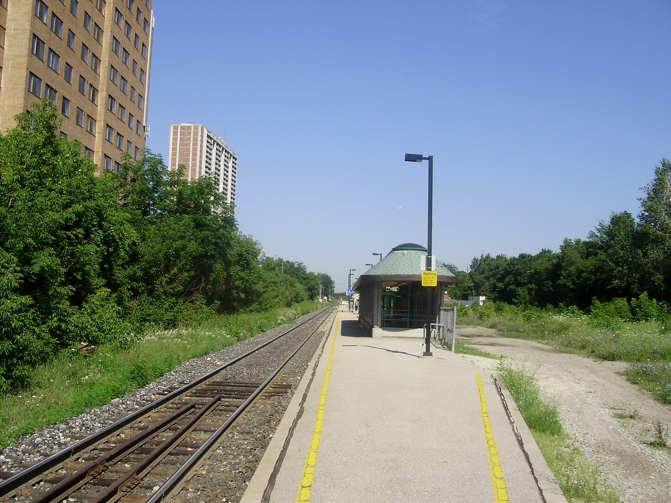 The station platform at Weston GO Station in Weston, Ontario, Canada, looking north from the extreme southern point of the platform.